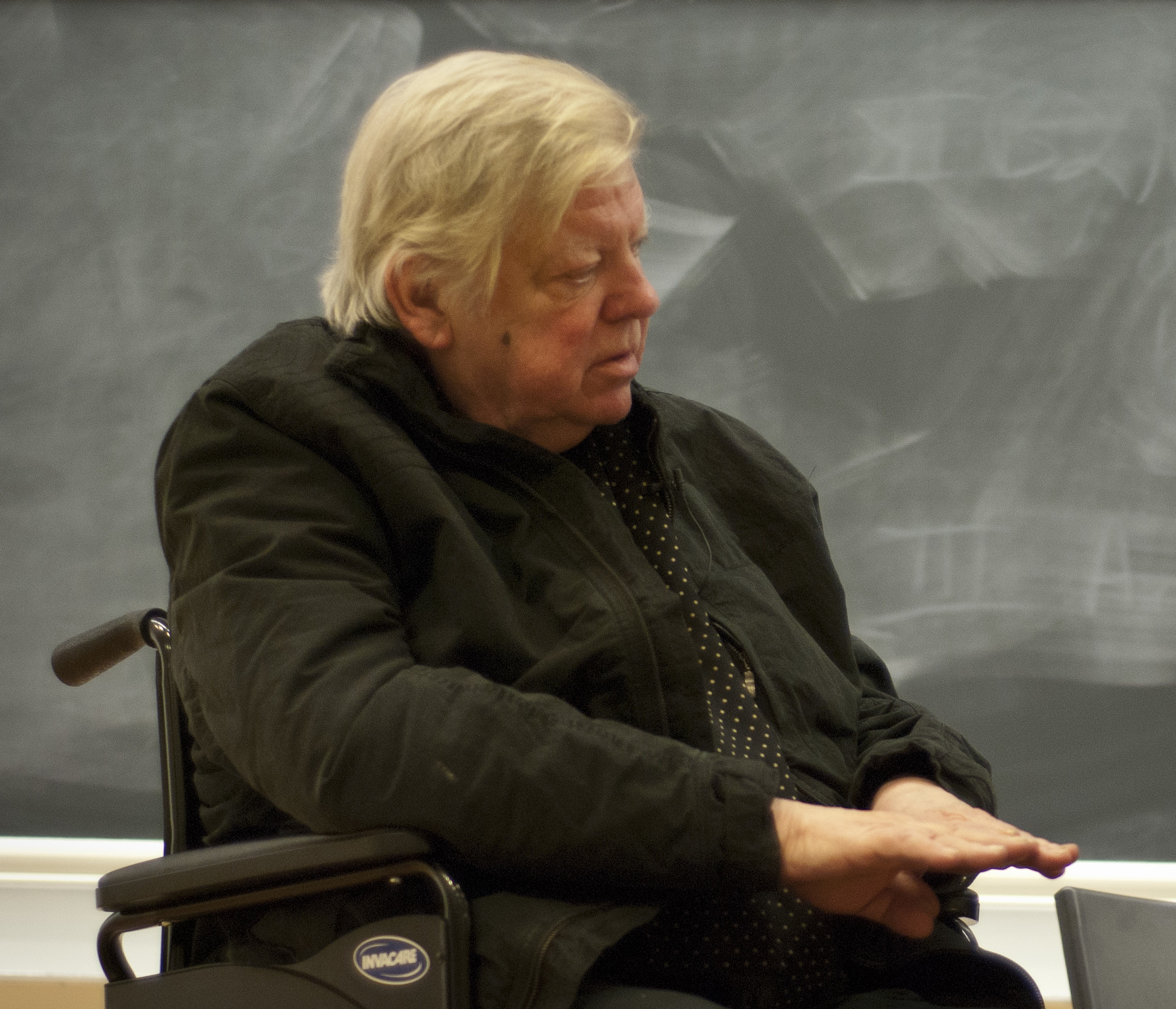 Monday, February 6, 2012 Altschul Auditorium As new technologies make it easy to copy and build upon existing content, and as network culture simultaneously encourages the proliferation of the copied content, media corporations increasingly lobby Congress to restructure copyright law to protect their interests. How will this new legal landscape affect architectural design and discourse? Join a cast of designers and thinkers on the intersection of law and imagery in this conversation organized by the Network Architecture Lab.